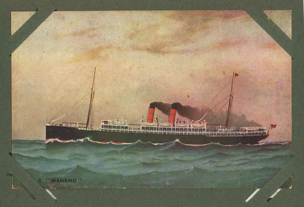 Maheno, the steamship whose hull now lies rusting on the beach at Fraser Island, ca. 1905 Maheno was used by New Zealand as a hospital ship in World War 1. It was caught in a winter cyclone while being towed to Japan for scrap metal and grounded at Cathedral Beach, Fraser Island, on the 8th of July, 1935. Today the S.S. Maheno is a popular tourist attraction.